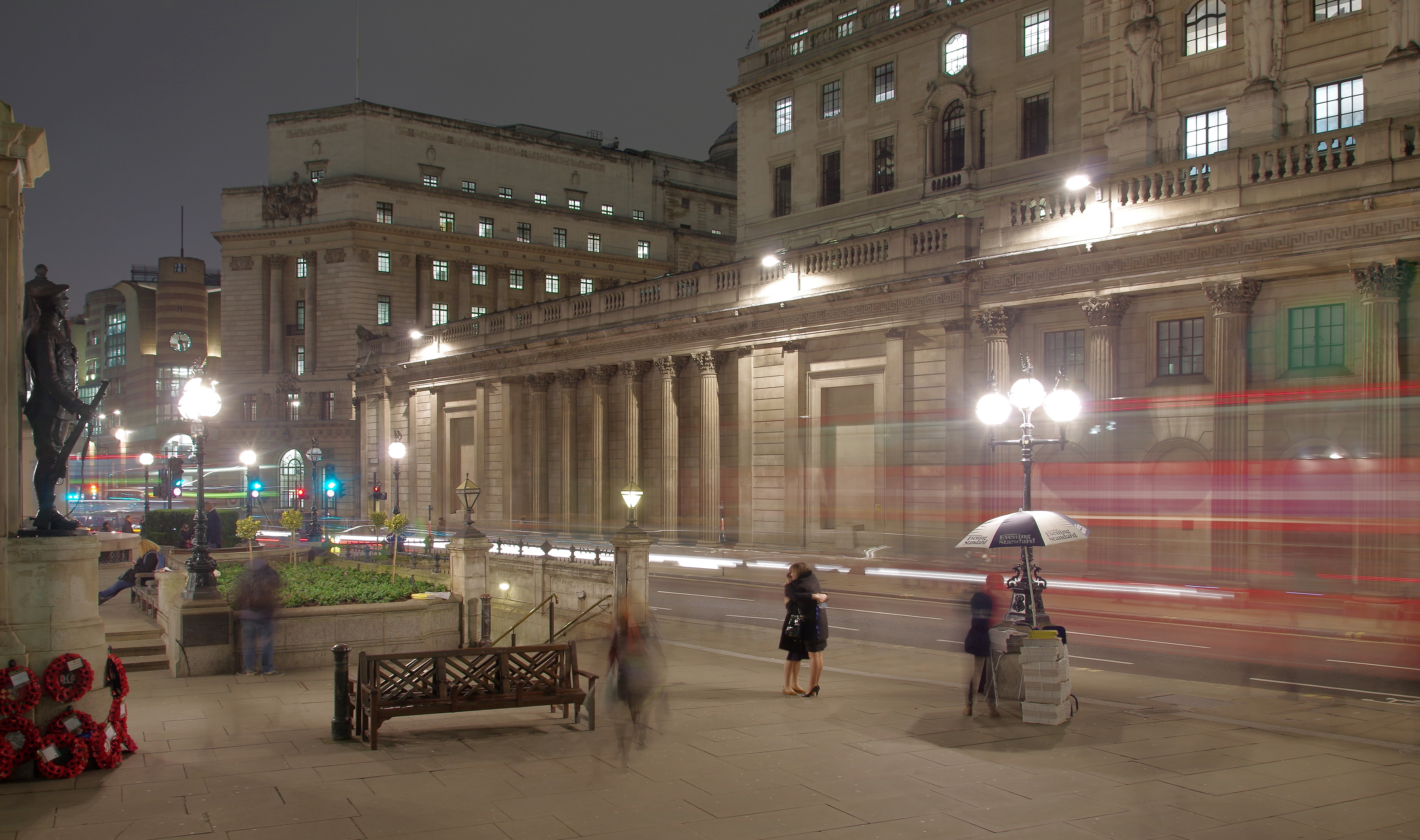 Long exposure photograph of the small square outside the Royal Exchange, at the junction of Threadneedle Street and Cornhill. A bus travels west on Threadneedle Street. I like how the couple in the centre are (almost) static hugging while the world rushes by.